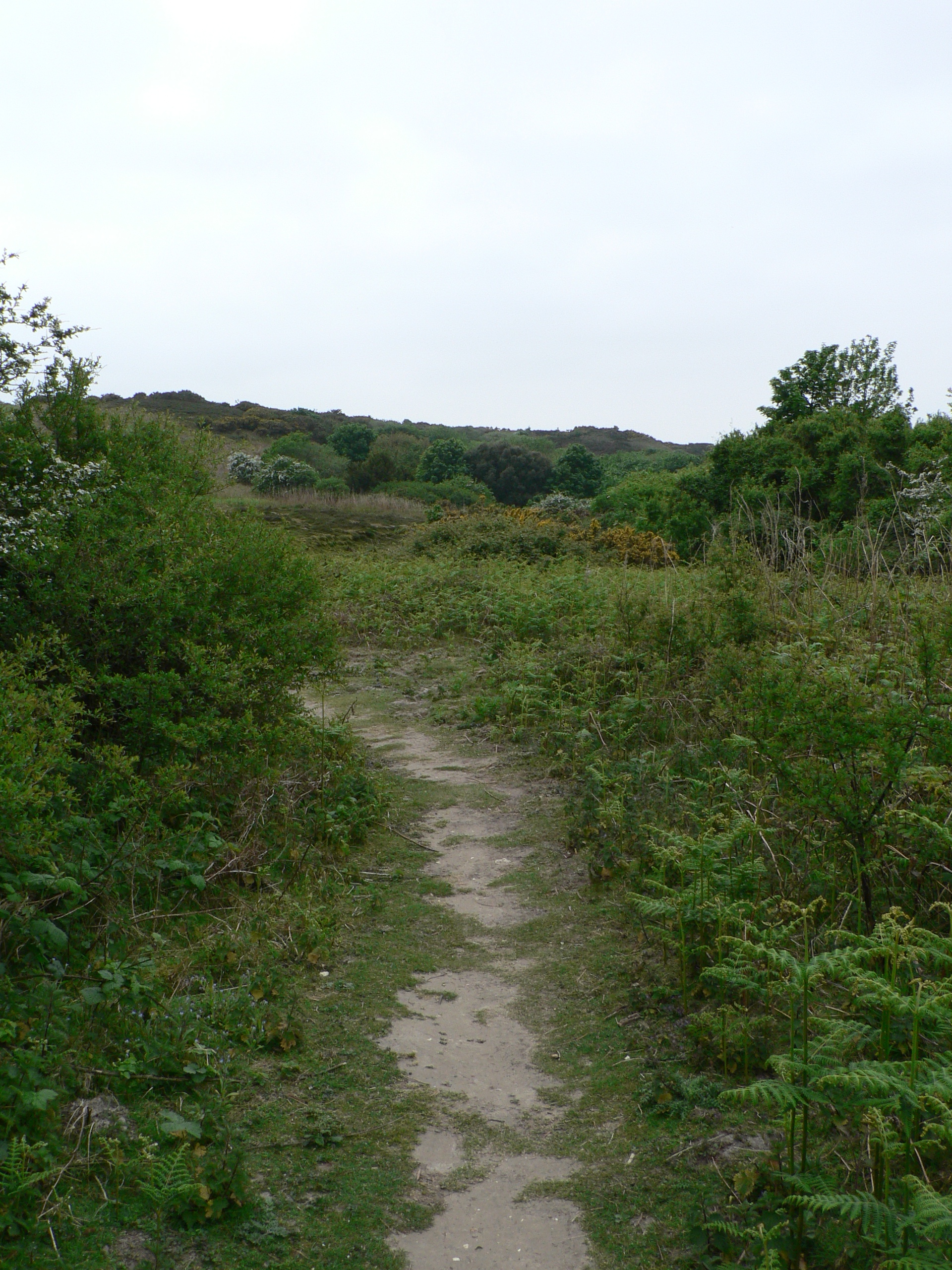 The footpath, through Headon Warren, Isle of Wight.